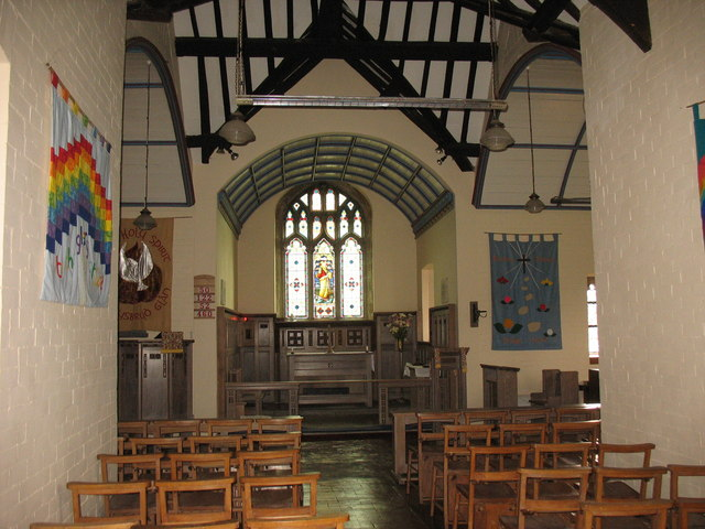 The nave and sanctuary of Eglwys St Gallgo, Llanallgo, near to Llanallgo, Isle of Anglesey/Sir Ynys Mon, Great Britain.